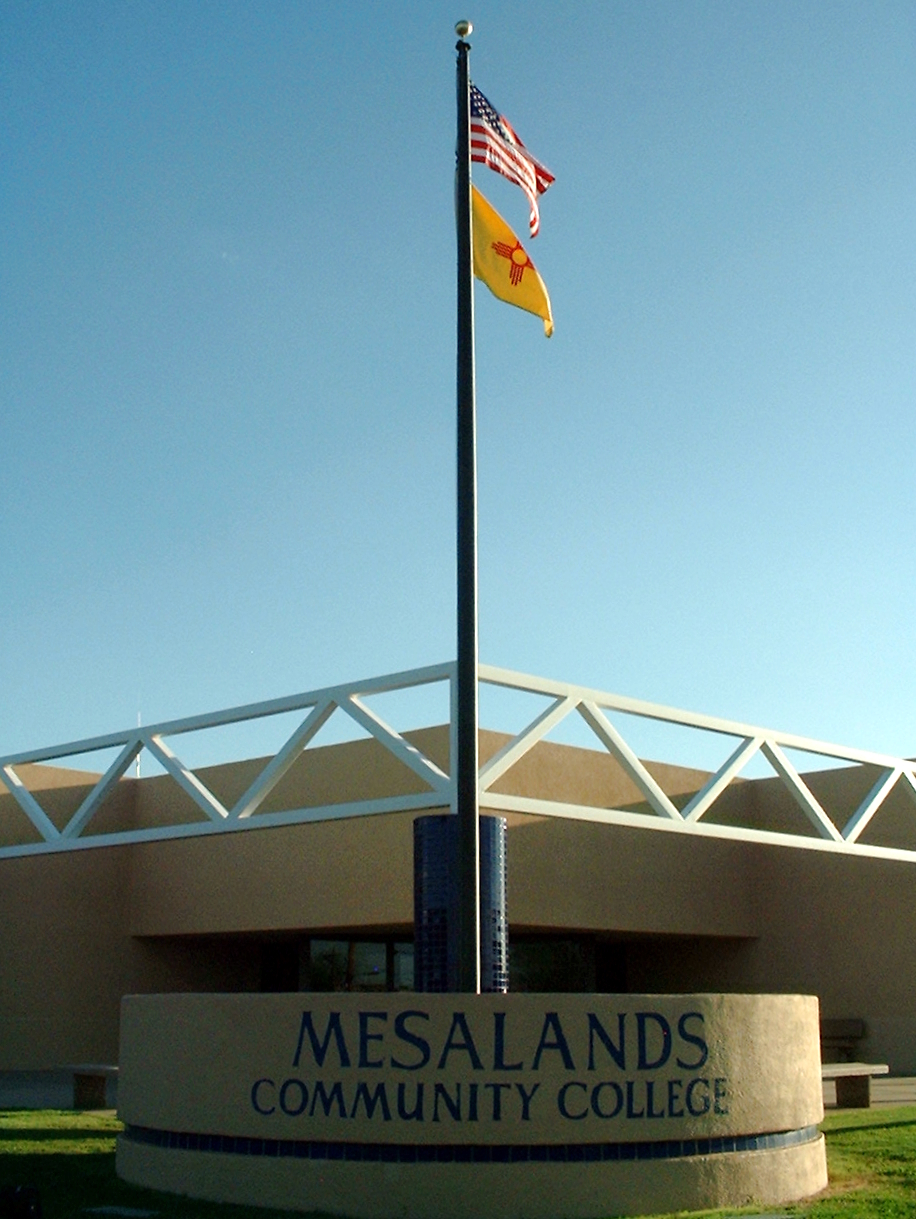 Main building of Mesalands Community College in Tucumcari, USA. I took this photo and release it.